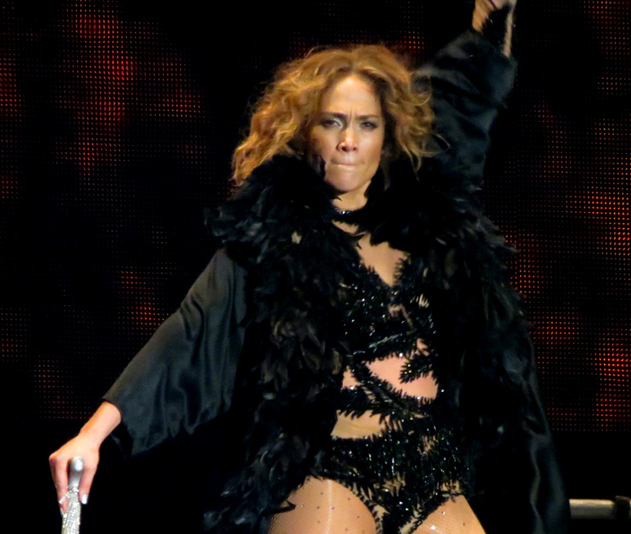 Jennifer Lopez live at the Pop Music Festival in São Paulo, Brazil (June 2012).